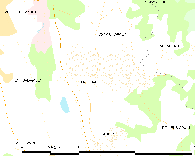 Map of French municipality